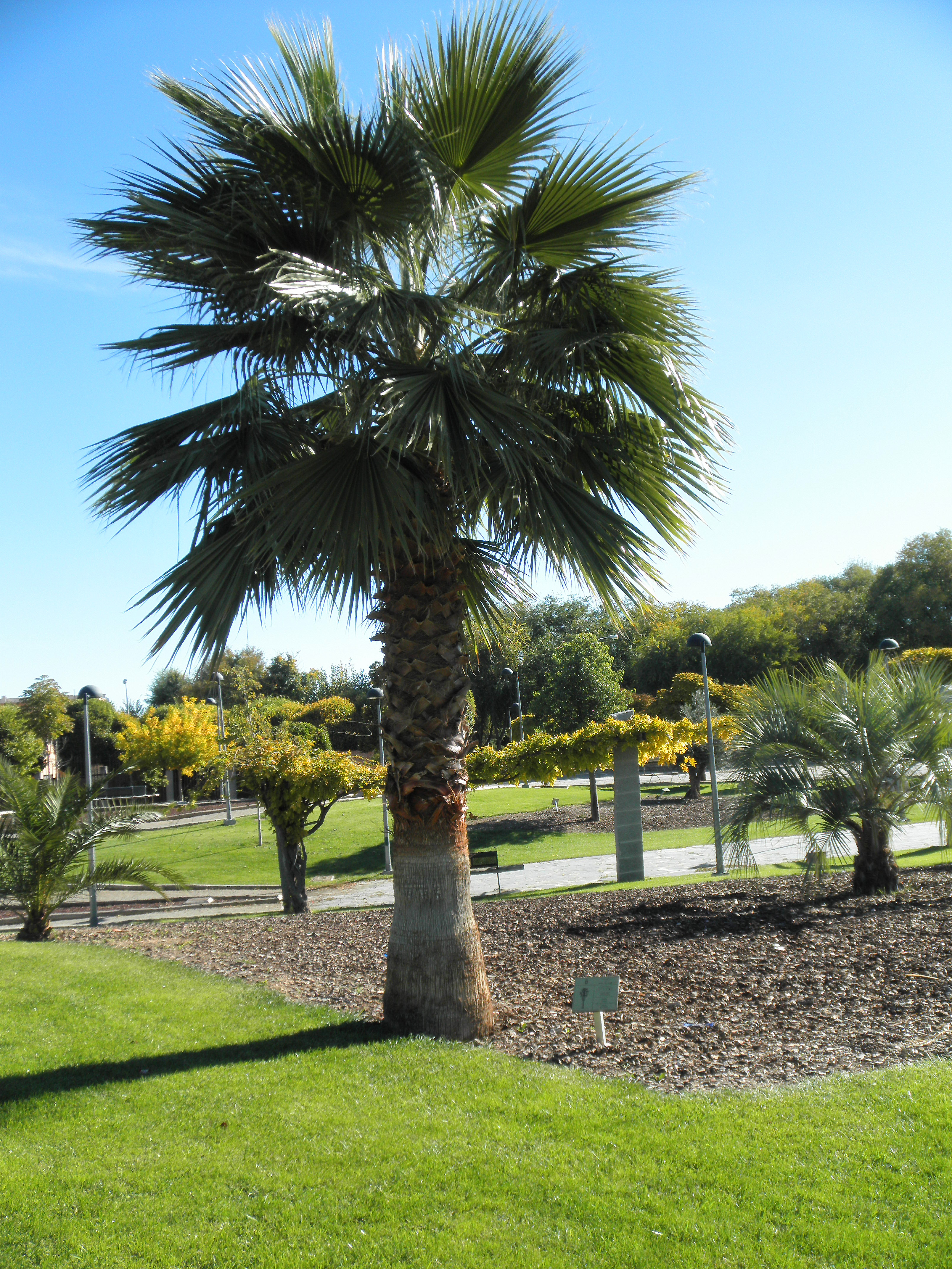 Washingtonia robusta habit, Parque El Pilar de Ciudad Real, Spain